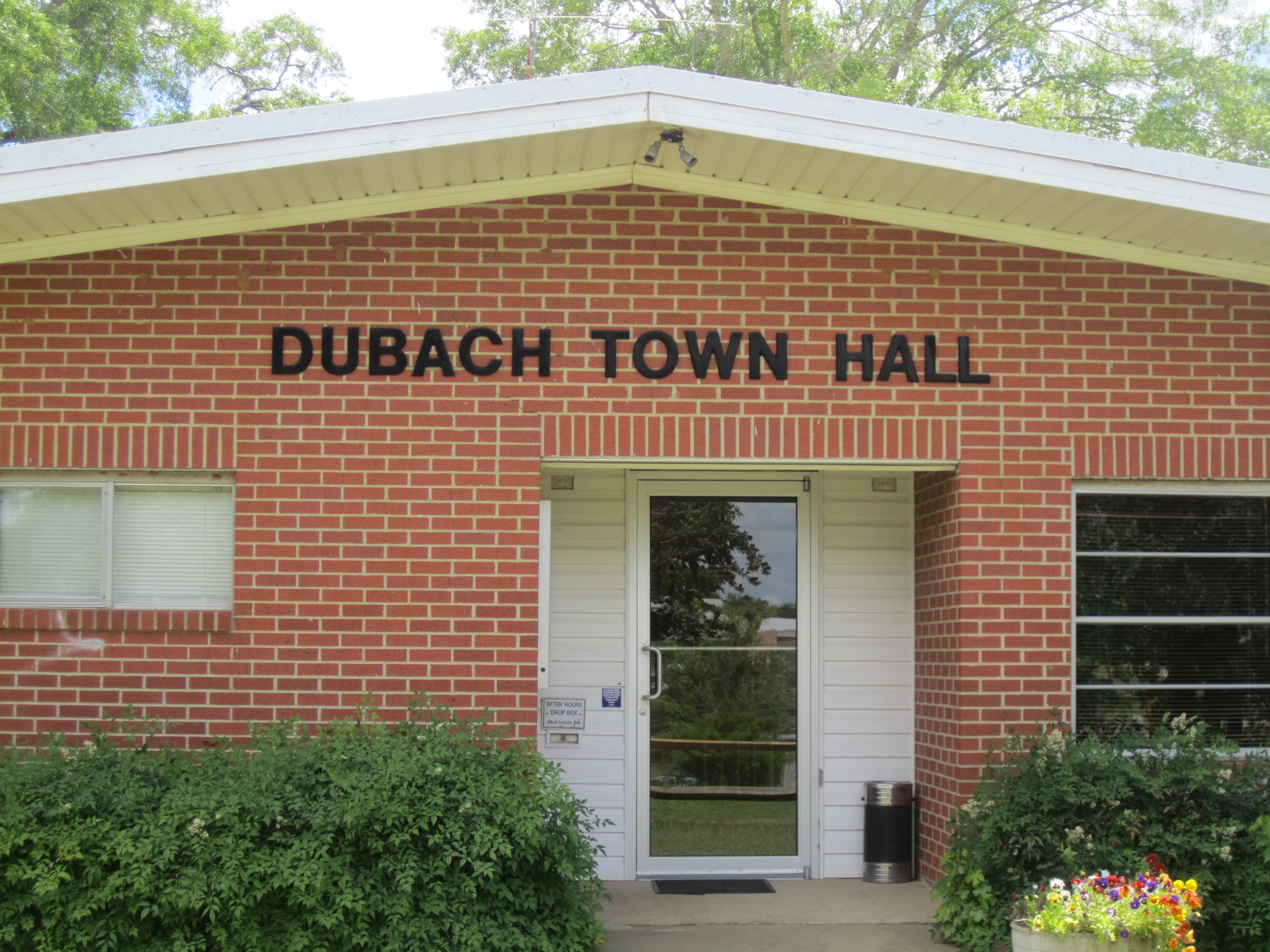 I took photo of Dubach, LA, Town Hall, with Canon camera.